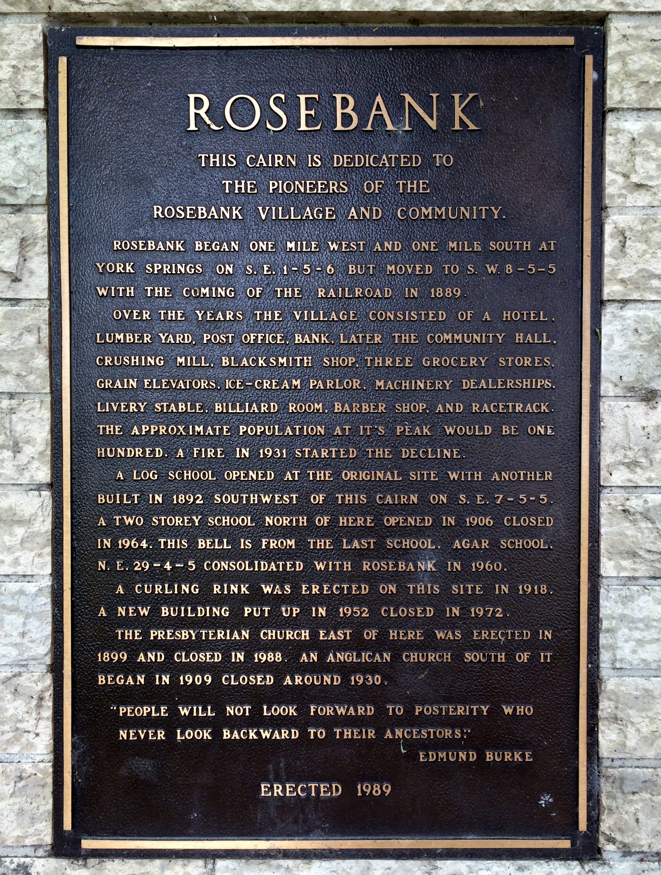 Plaque on the cairn dedicated to the Pioneers of the Rosebank Community